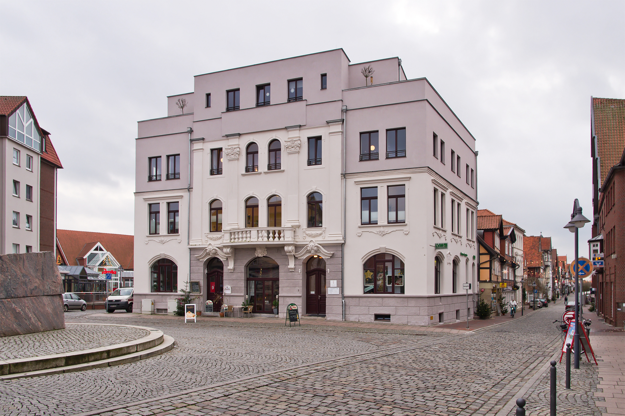 New building with parts of the old facade of 2007 burned out Hotel "Ratskeller", Am Markt 1 in Dannenberg (Elbe), and view of the "Lange Strasse" (right). The building contains a medical care center and a bakery.